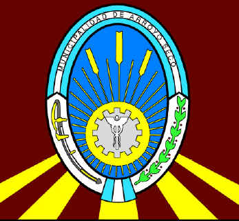 Logo of the city of Arroyo Seco in Santa Fe Province, Argentina.